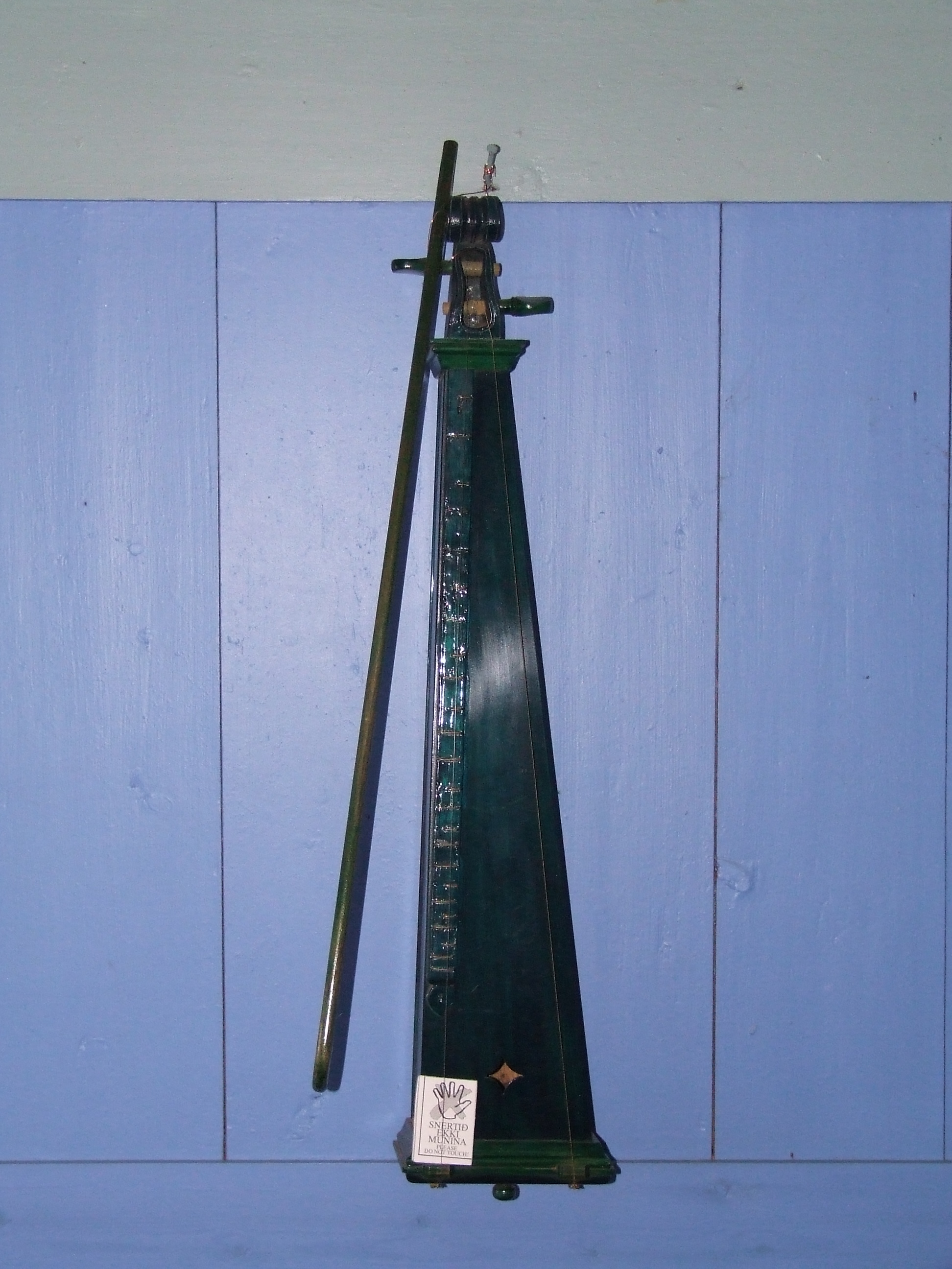 Langspil with bow from Iceland. Two strings: one melody string, one drone string.